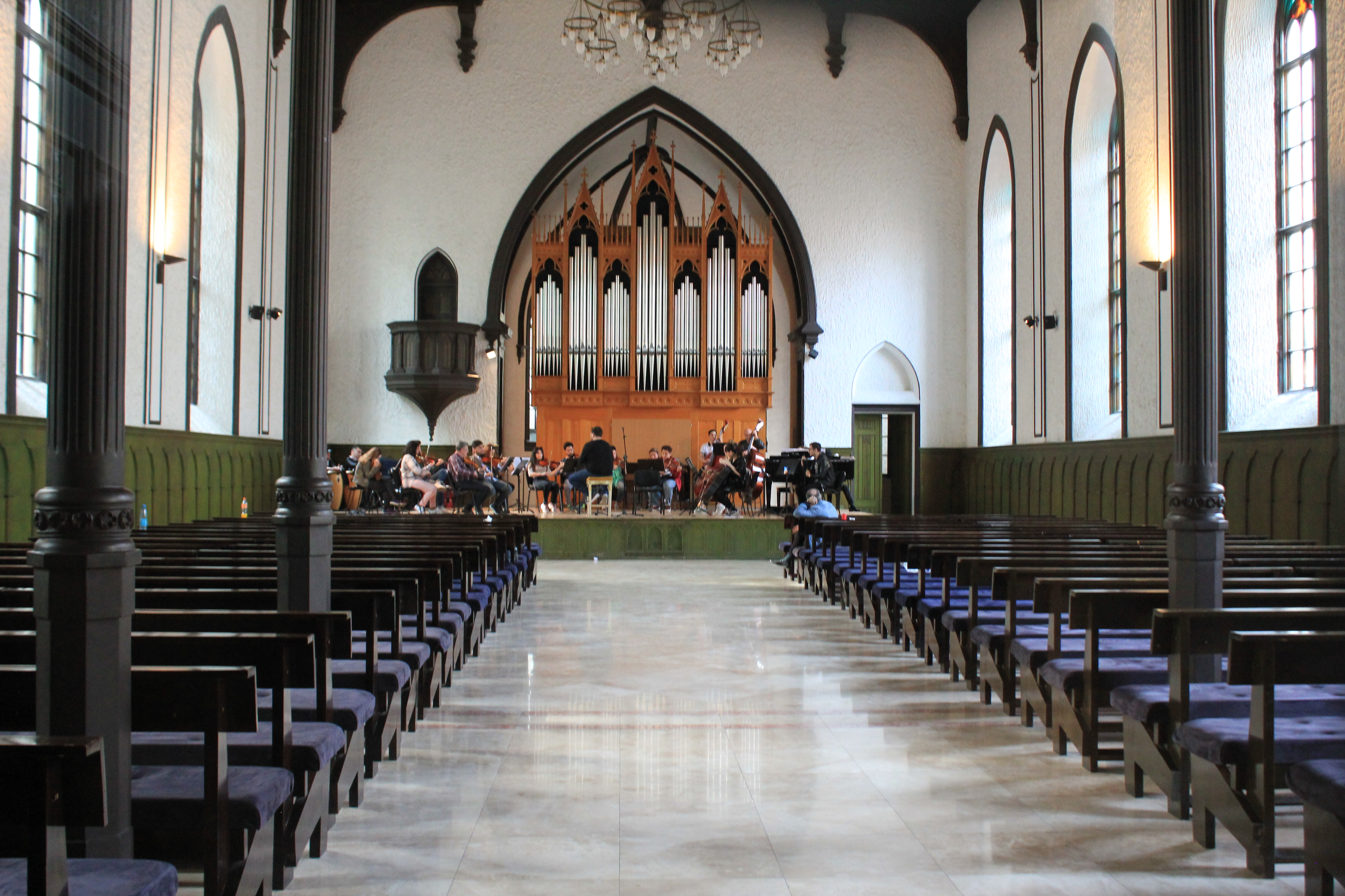 Erlöserkirche